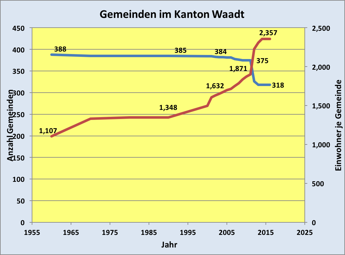 The development of the municipalities of the Canton of Vaud from 1960 to January 1, 2012 and the correlated average inhabitants per municipality.